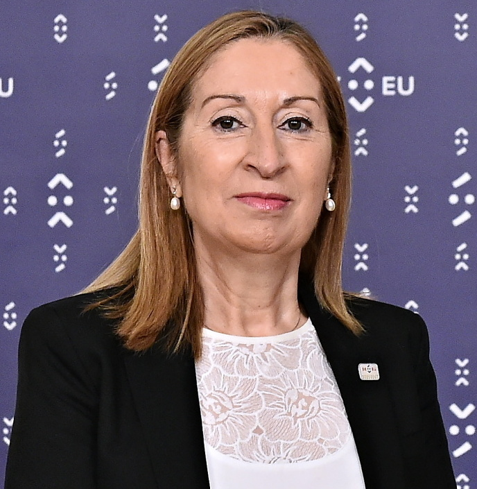 Congress of Deputies of Spain Mrs Ana Pastor Julián, Speaker - National Council of the Slovak Republic Mr Andrej Danko, Speaker Of The National Council of The Slovak Republic Photo Rastislav Polak